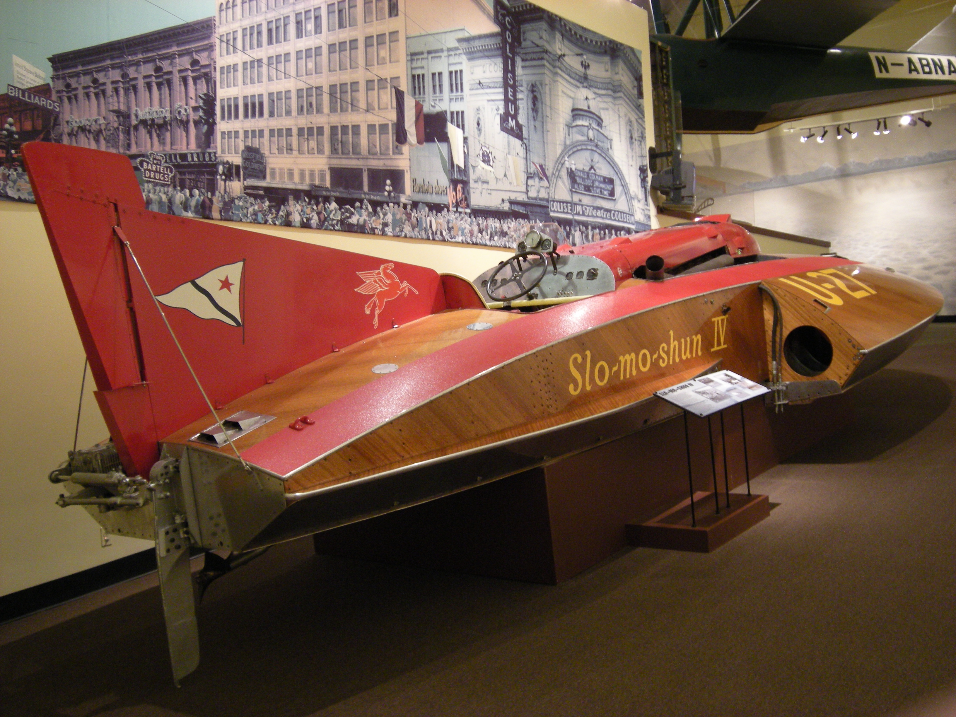 Slo-Mo-Shun IV, hydroplane, holder of the water speed record set June 26, 1950 (and bettered July 7, 1952), surpassed by Bluebird K7 on July 23, 1955.